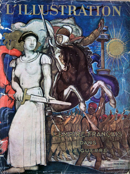 Allegory of France and natives of the French colonial empire at war. Cover of French weekly magazine L'Illustration, 11 May 1940.